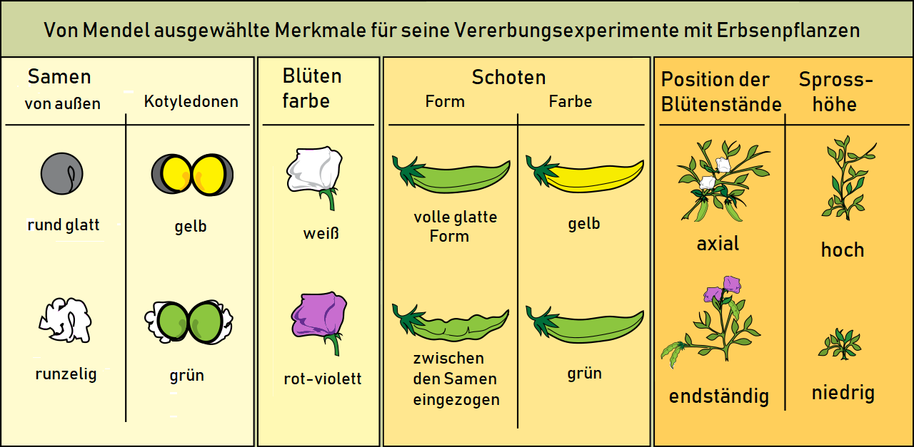 Characteristics of pea plants selected by Gregor Mendel for his experiments